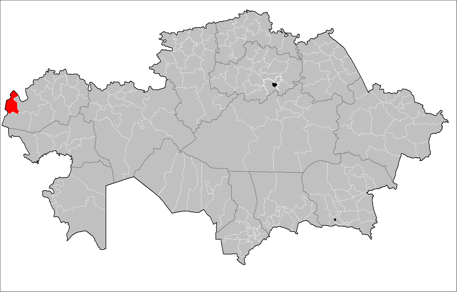 Map of Dzhanybek District in Kazakhstan. for public domain use, using MapInfo Professional v8.5 and various mapping resources.